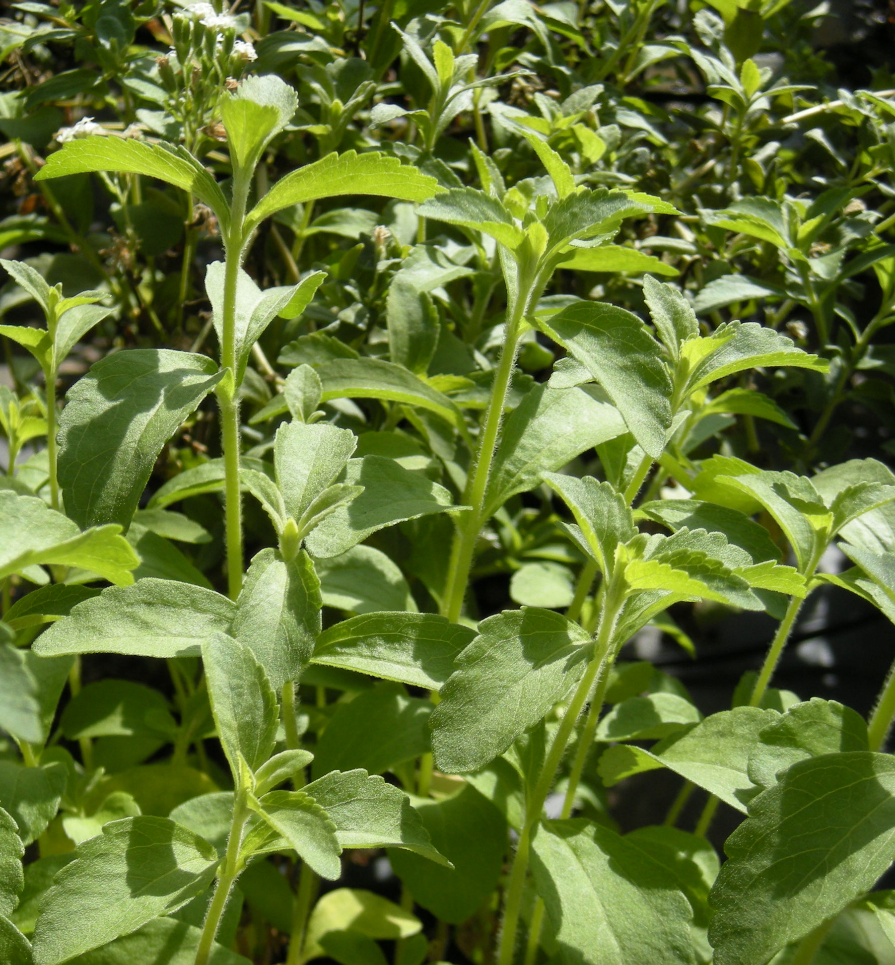 Stevia rebaudiana foliage